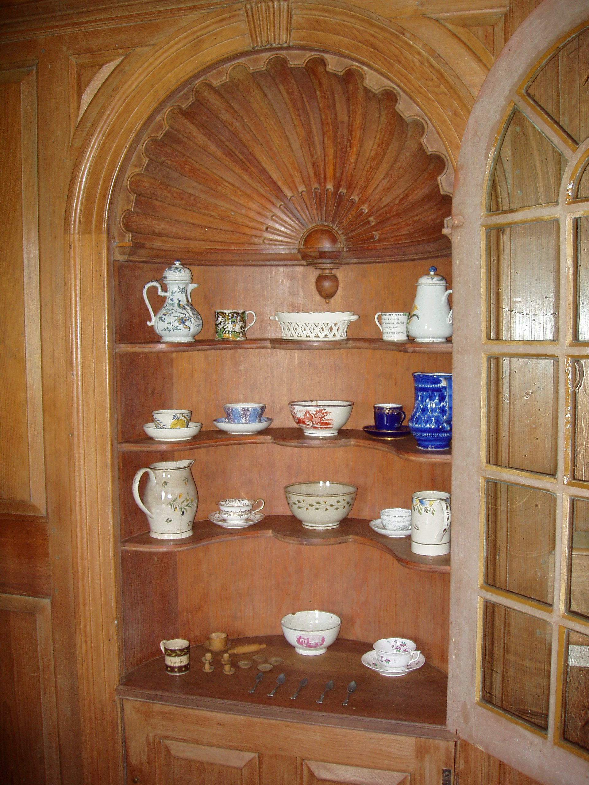 Colonel John Ashley House, Sheffield, Massachusetts, USA. Interior detail - china cabinet.